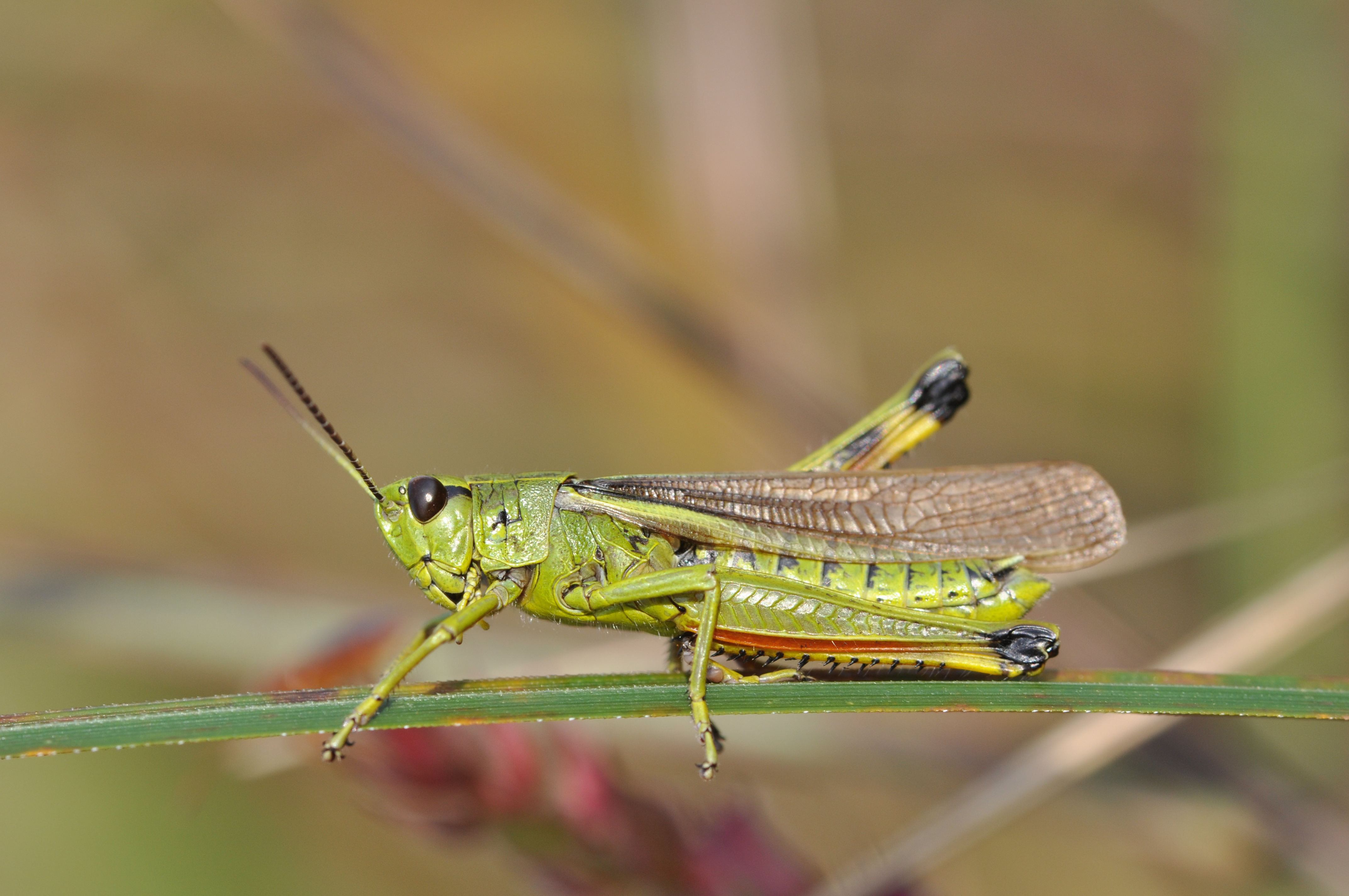 Large marsh grasshopper male in Kirchwerder, Hamburg.